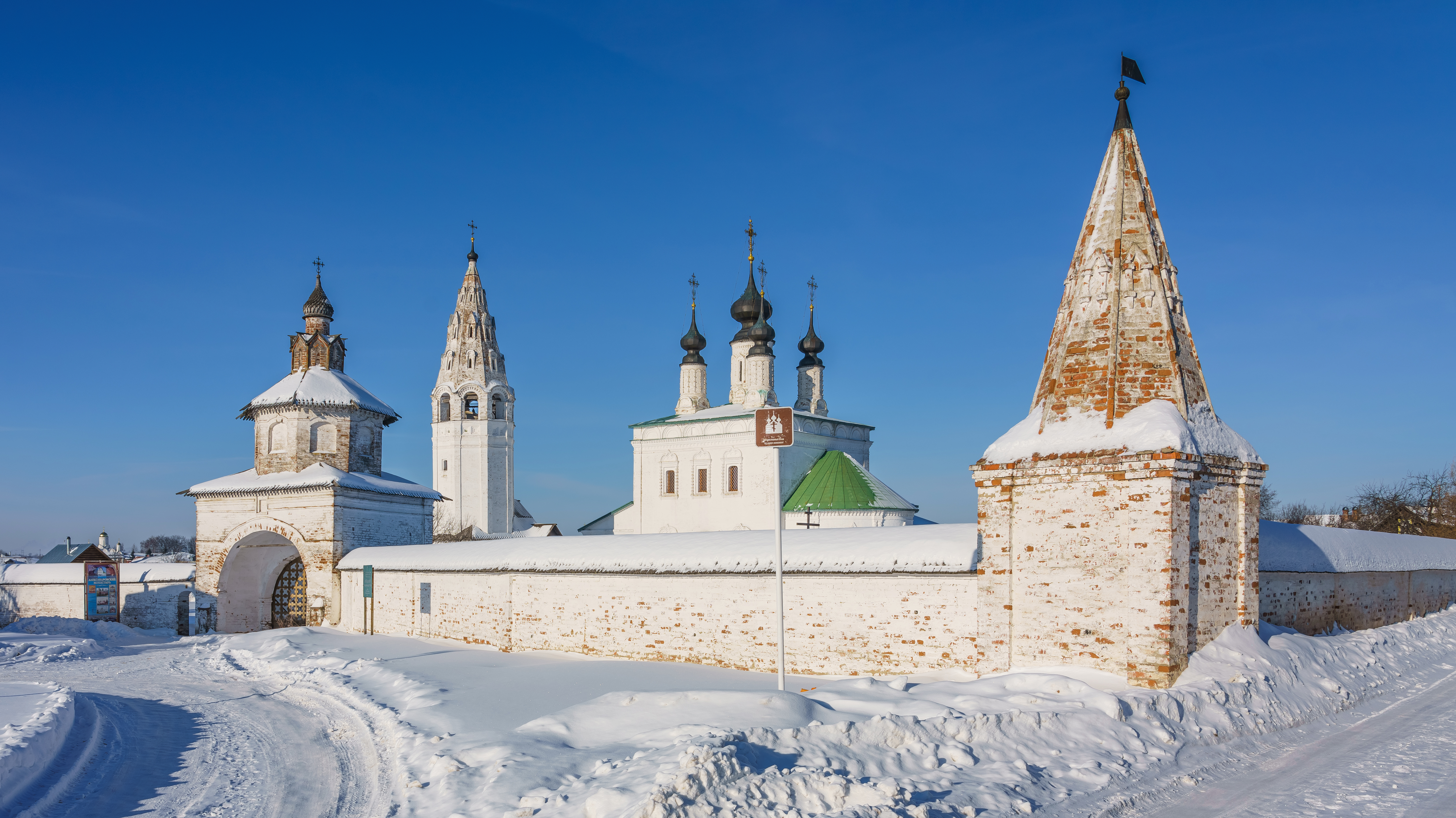 Alexandrovsky Monastery in Suzdal, Russia